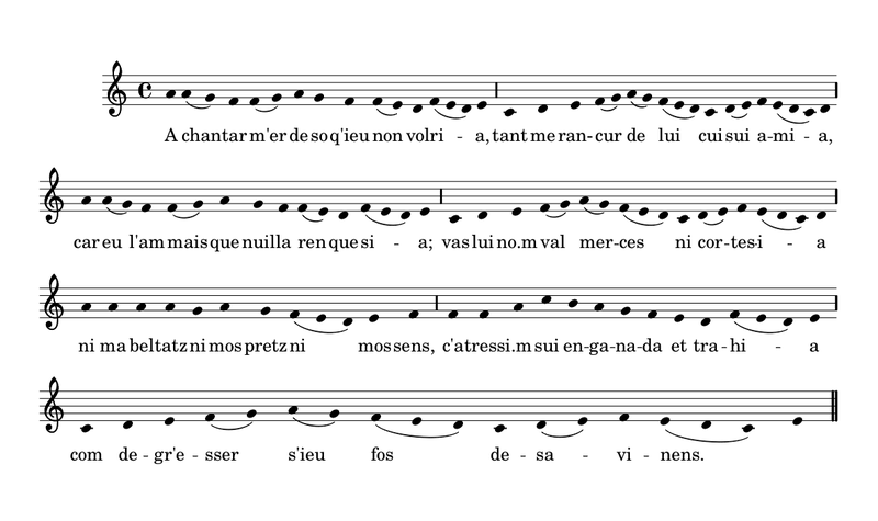 Trabajo propio de wikipedista de en.wikipdia: ver 800pxA_chantar.png made by User:Makemi, transformed to .png and cropped; Public domain I, the creator of this work, hereby release it into the public domain. This applies worldwide. In case this is not legally possible, I grant anyone the right to use this work for any purpose, without any conditions, unless such conditions are required by law.